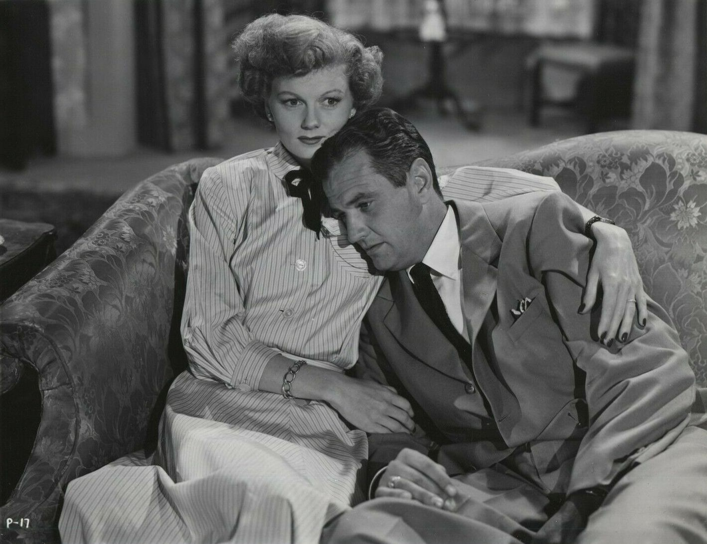 Press photo of Barbara Billingsley and Bruce Edwards in the 1949 film "Prejudice"